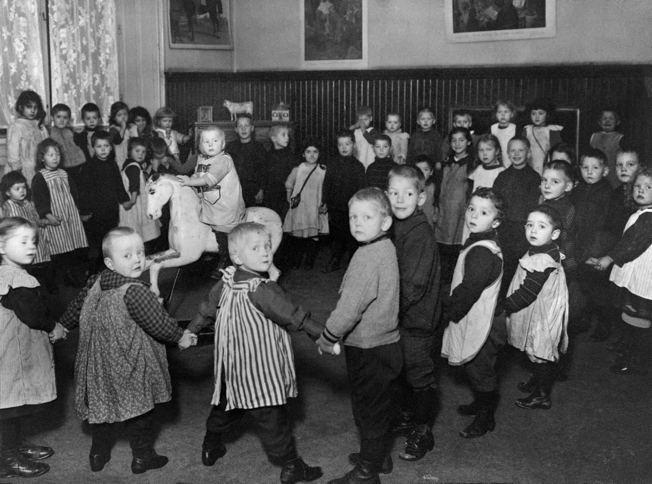 FOTOGRAFIBarn på Katarina västra barnkrubba leker en ringlek runt ett barn på en gunghäst. 1906-1906FOTOGRAF: Okänd.BILDNUMMER: Fa 28259Stadsmuseet i Stockholm Stockholms stadsmuseum Bildnummer SSMFa028259